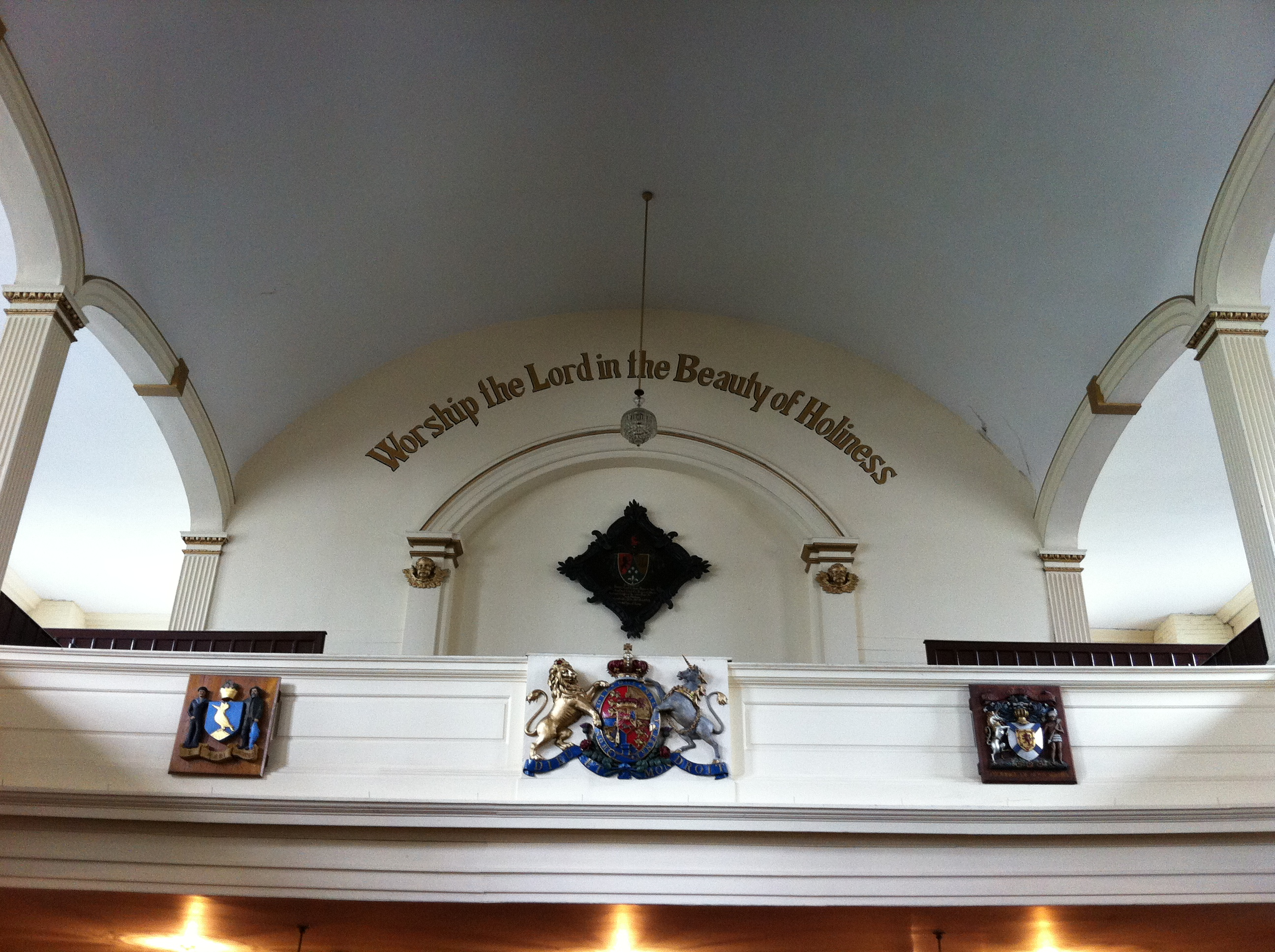 Baron Oberst Franz Carl Erdmann von Seitz Hatchment St Pauls Halifax Nova Scotia